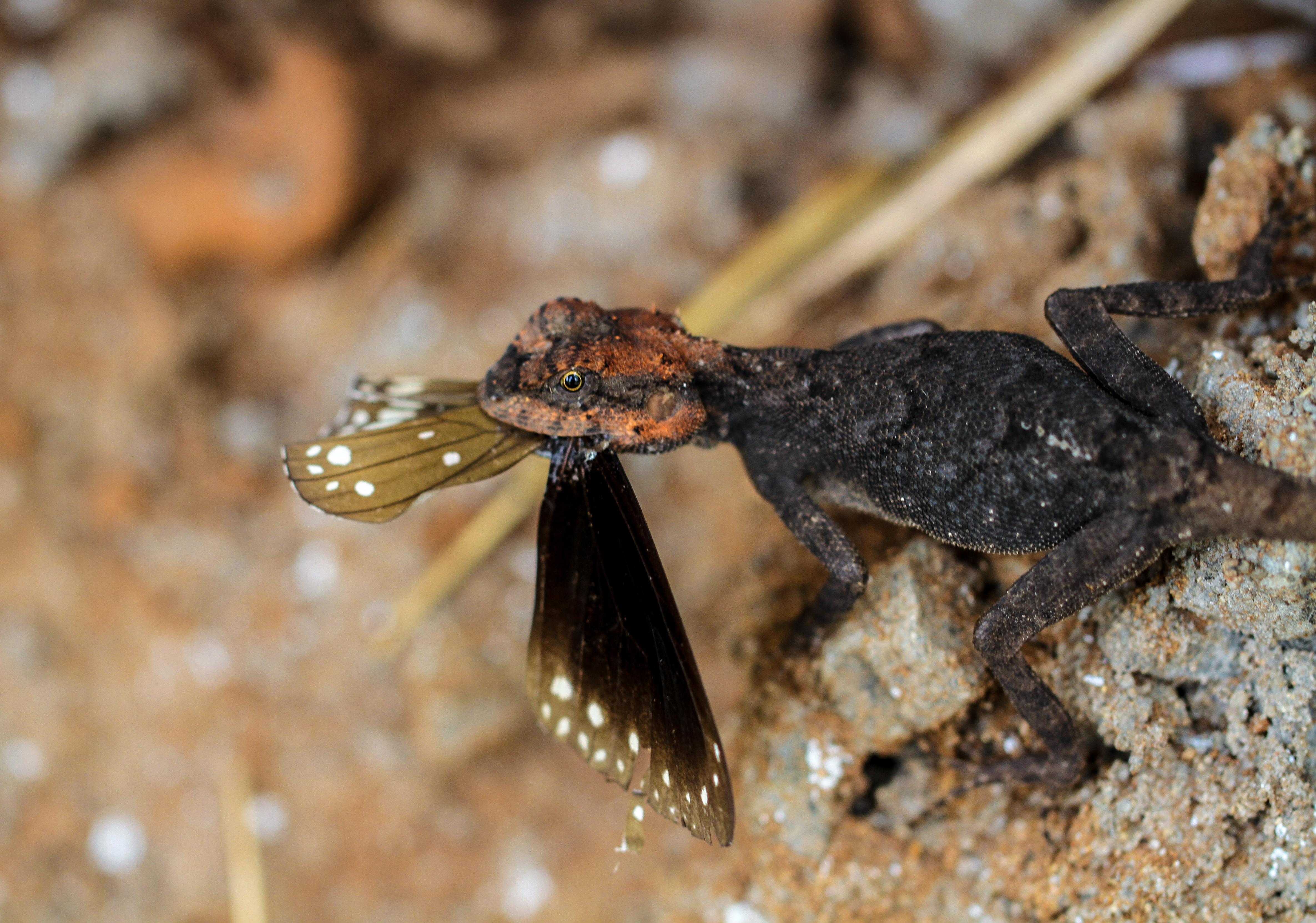 A rock agama preying upon butterfly